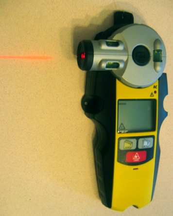 Stanley Intellilaser Pro Laser Line Level / Stud Sensor (PN 77-260). Stanley logo removed, contrast and colors adjusted in Adobe Photo Elements.